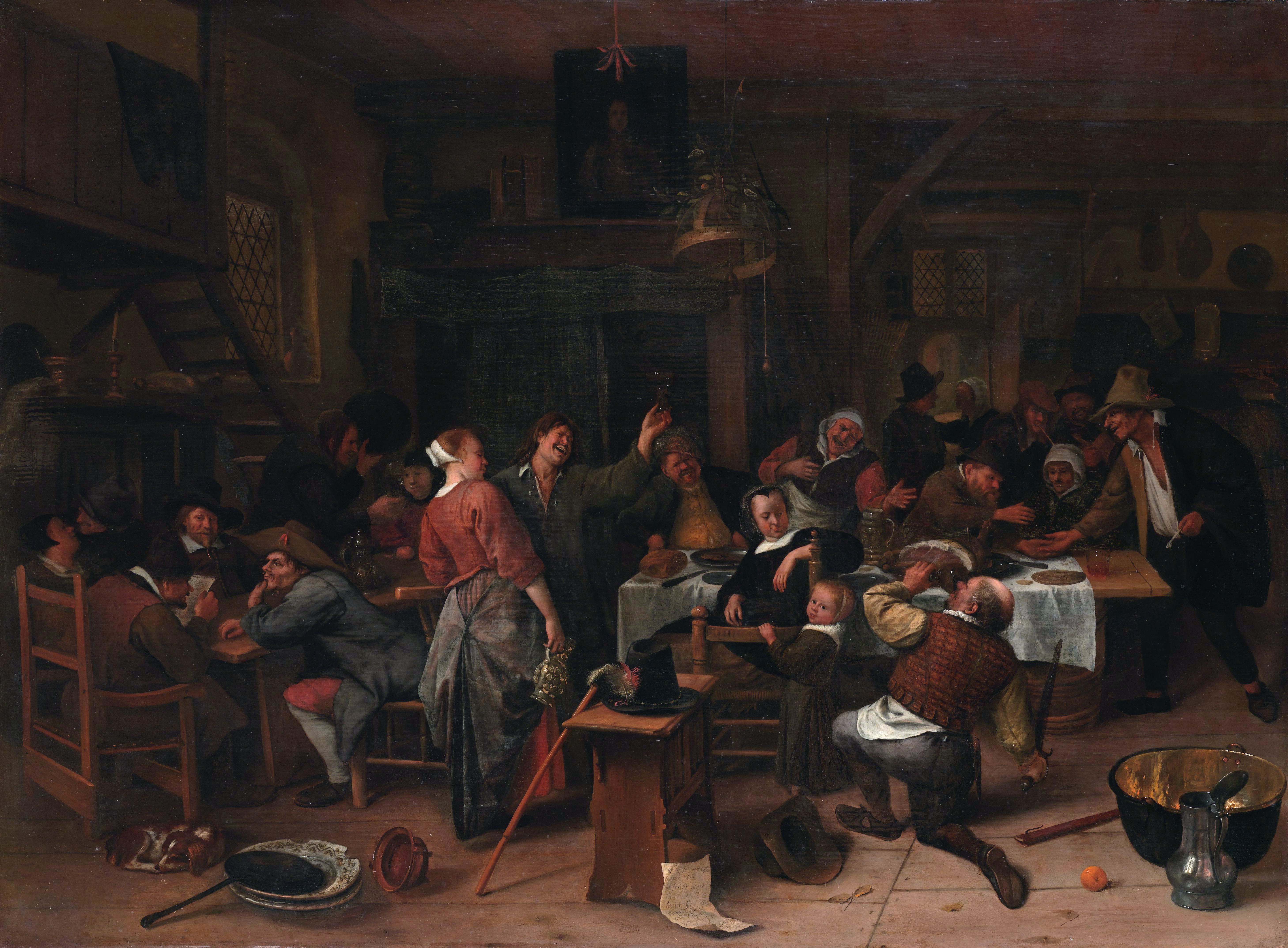 Prince's day. Interior of an inn with a company celebrating the birth of William III of Orange on 14 November 1650. People are drinking, eating and laughing at table. To the left a man is reading from a piece of paper. On the wall above a bedstede hangs a portrait of the prince. Above the table hangs a copper chandelier with a orange twig and a bell.